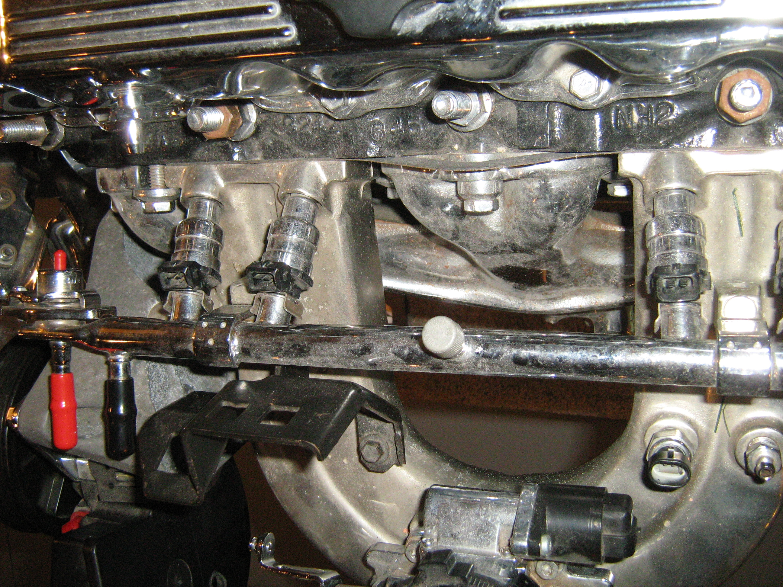 Jeep 2.5 Liter, four-cylinder engine, chromed. This picture of the display engine shows part of the fuel injection system (with MPFI). The fuel rail is connected to the injectors that are mounted just above the intake manifold. This engine was developed by American Motors Corporation (AMC) and continued to be manufactured by Chrysler. All were built in Kenosha, Wisconsin.